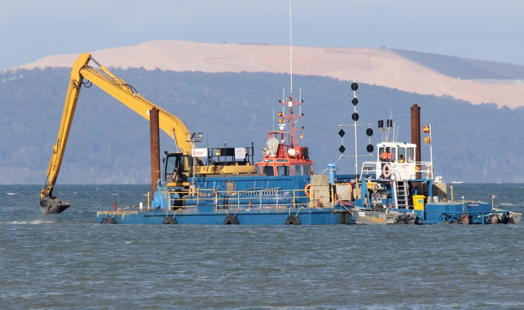 Dredging a navigation channel in Moreton Bay to ensure that ferries can access Toondah Harbour in Cleveland, Queensland.